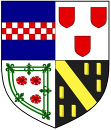 Arms of Baron Kilmarnock